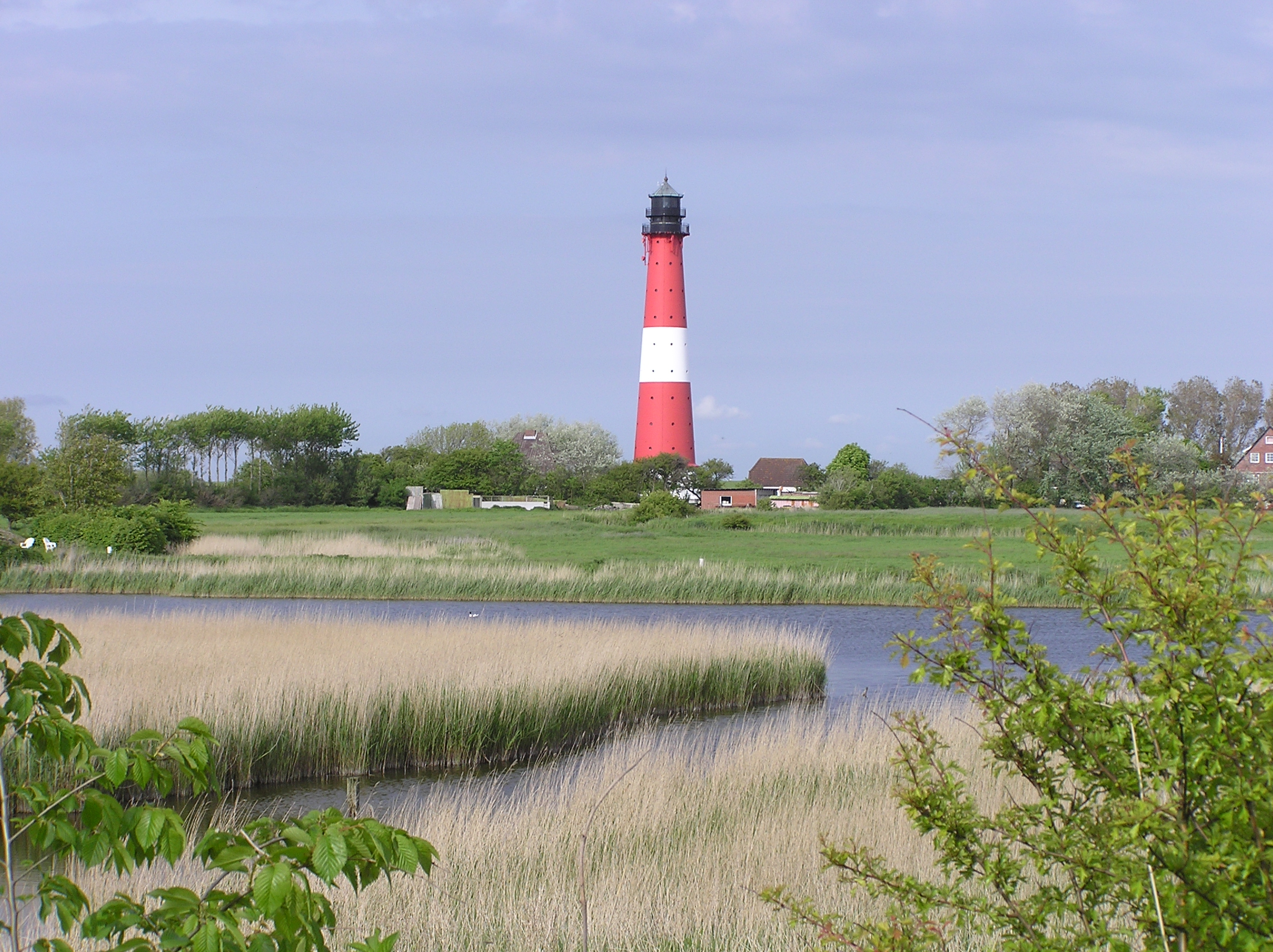 Lighthouse Pellworm, Germany